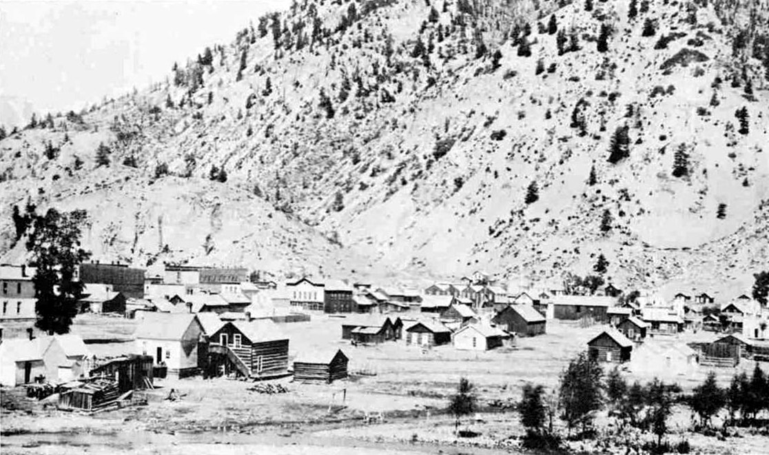 Lake City, Colorado 1880 view of town